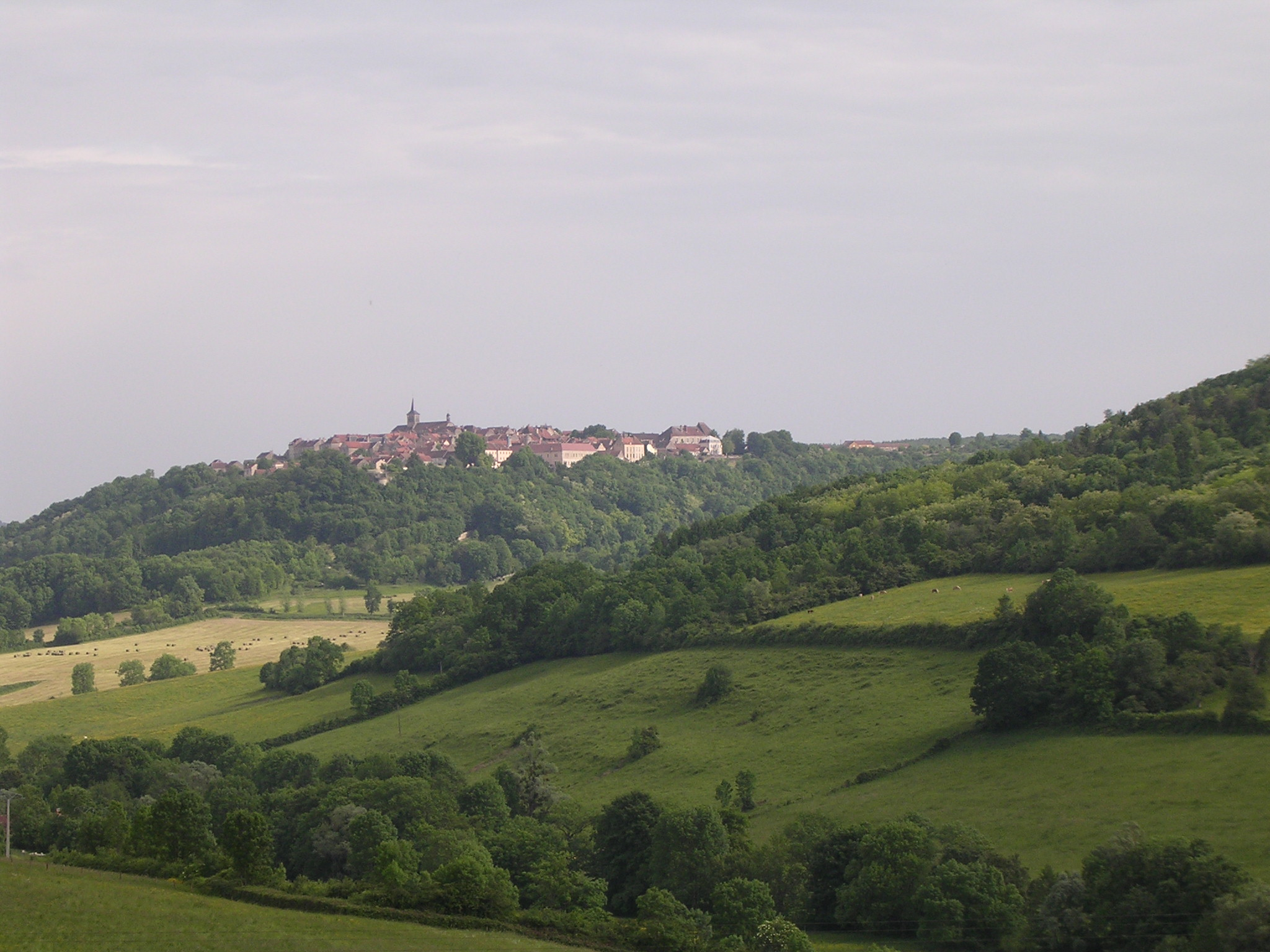 Flavigny-sur-Ozerain, Bourgogne, France. View from N-W.